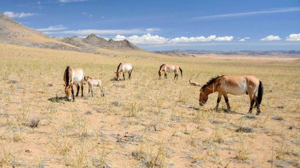 Prague mares with their foals and with a stallion